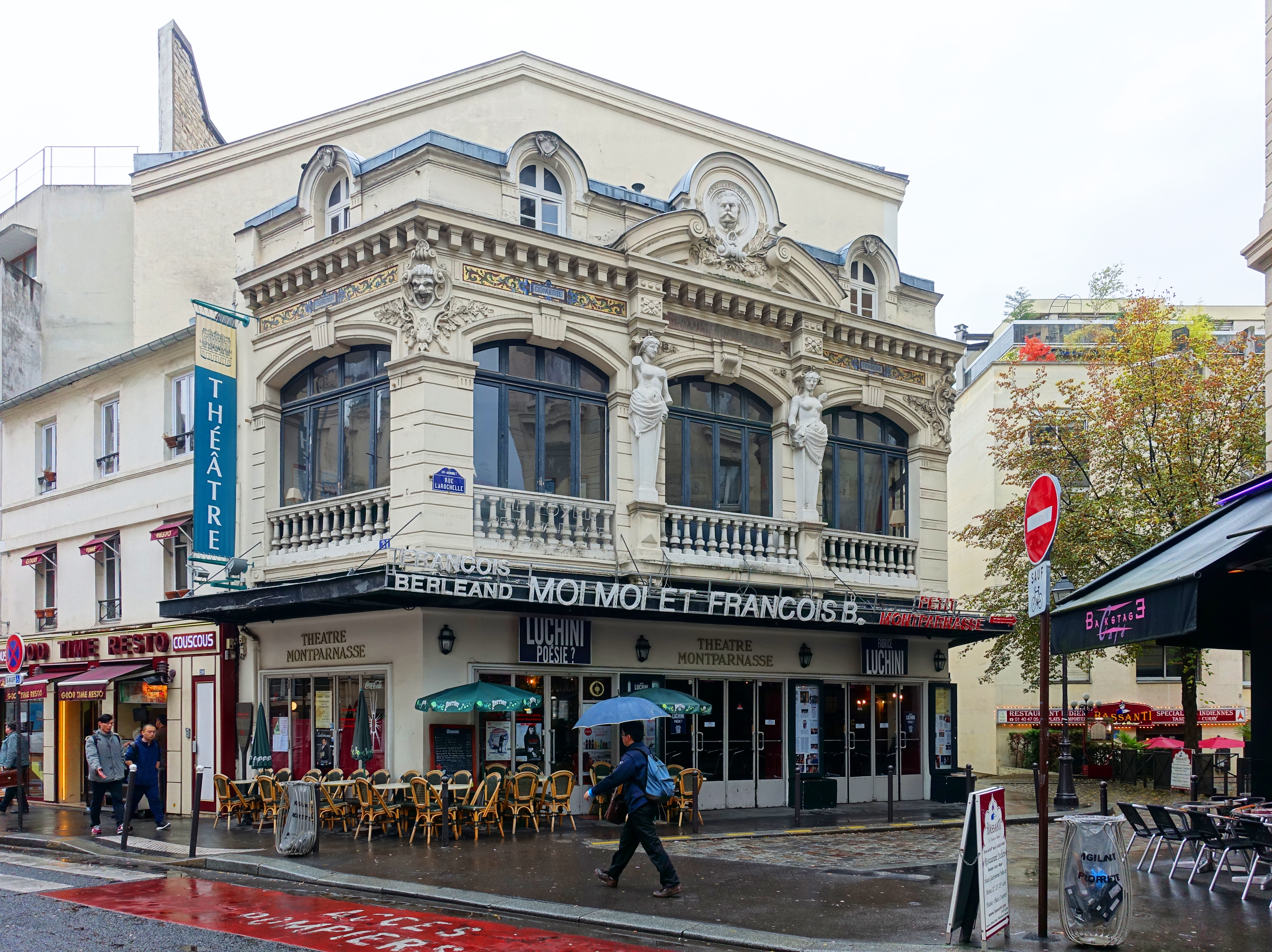 Theatre @ Montparnasse @ Paris